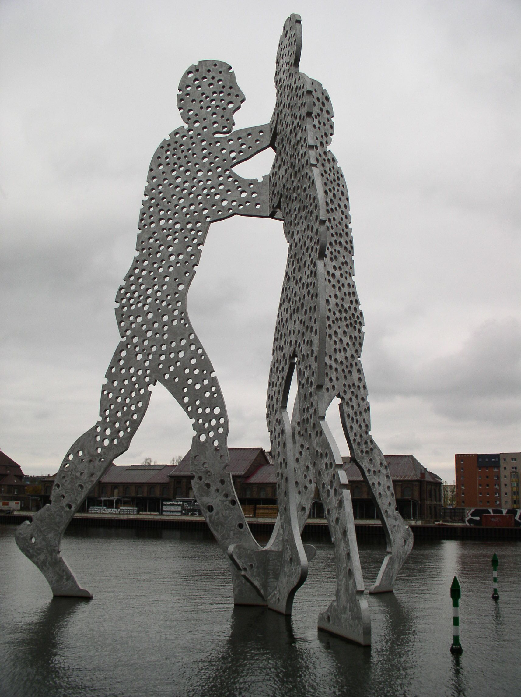 The "Molecule Men" in Berlin